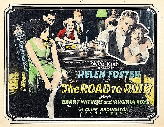 Poster for the American exploitation film The Road to Ruin (1928) with (per the IMDb) Thomas Carr, Helen Foster, Don Rader, Virginia Roye, and Grant Withers.